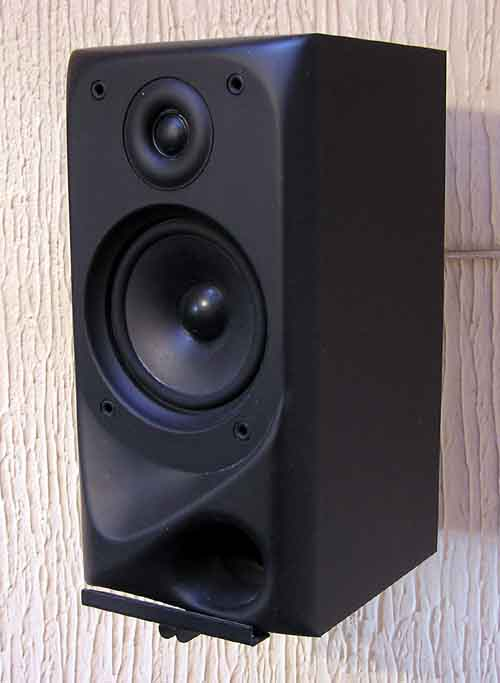 Wall-mounted loudspeaker. Photographed by Adrian Pingstone.